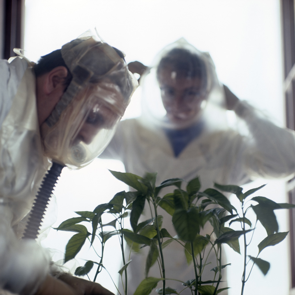 “N.I. Vavilov All-Union Research Institute of Plant Industry”. The N.I. Vavilov All-Union Research Institute of Plant Industry. The study of photosynthesis of plants with the help of tagged atoms.